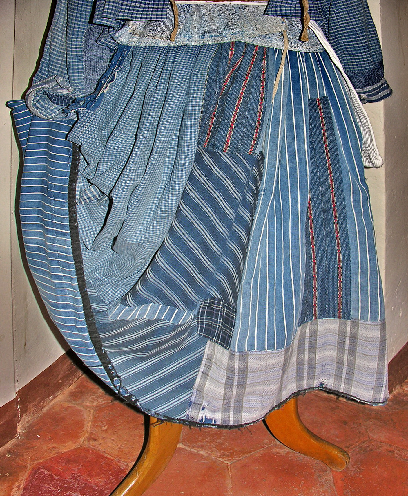 Mons(Var) : laocal linen patchwork